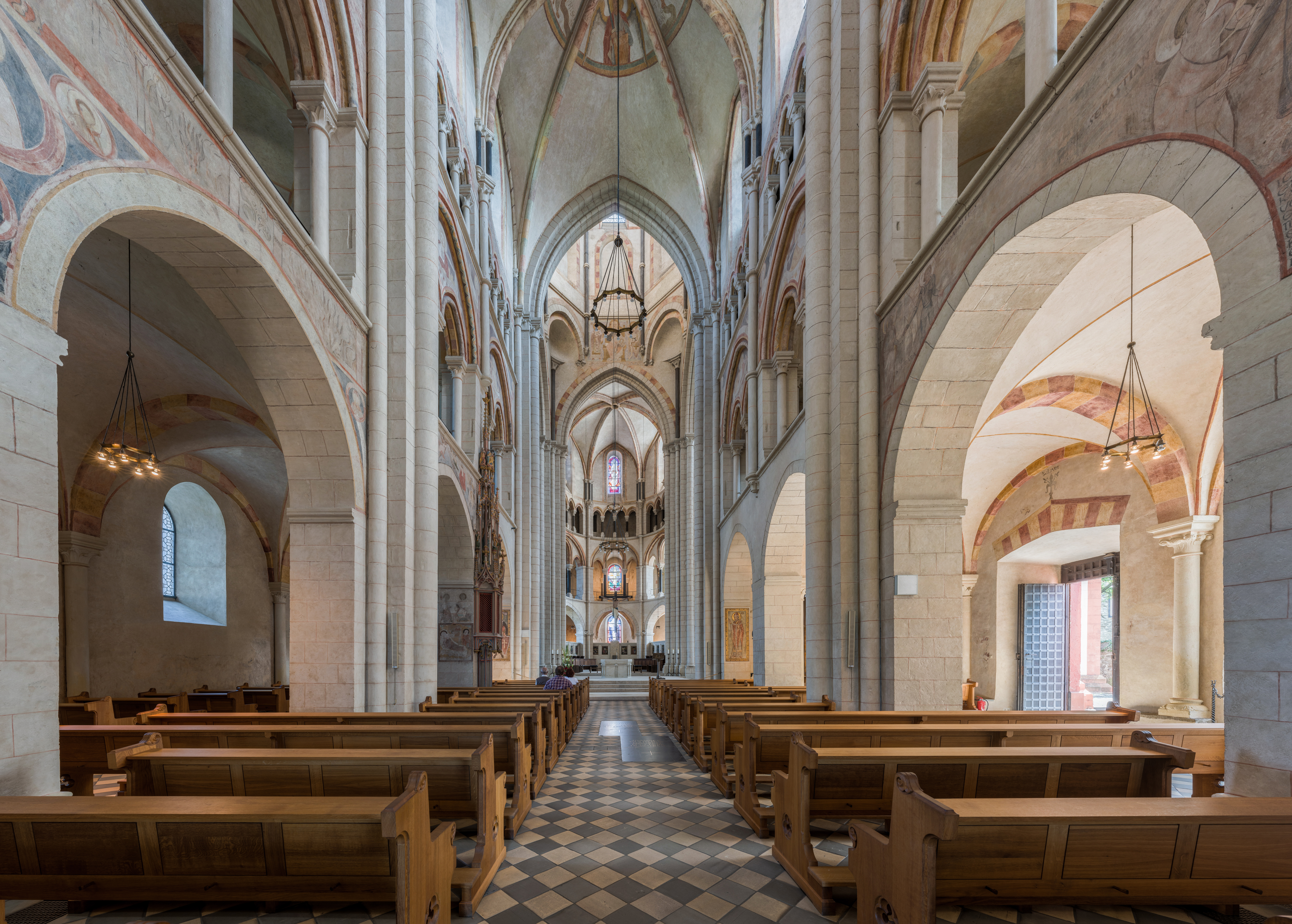 The nave of Limburg Cathedral as seen from west